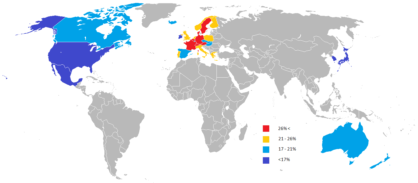 % of GDP in social expenditures.I have colored the map according with data provided by OCSE for 2001.